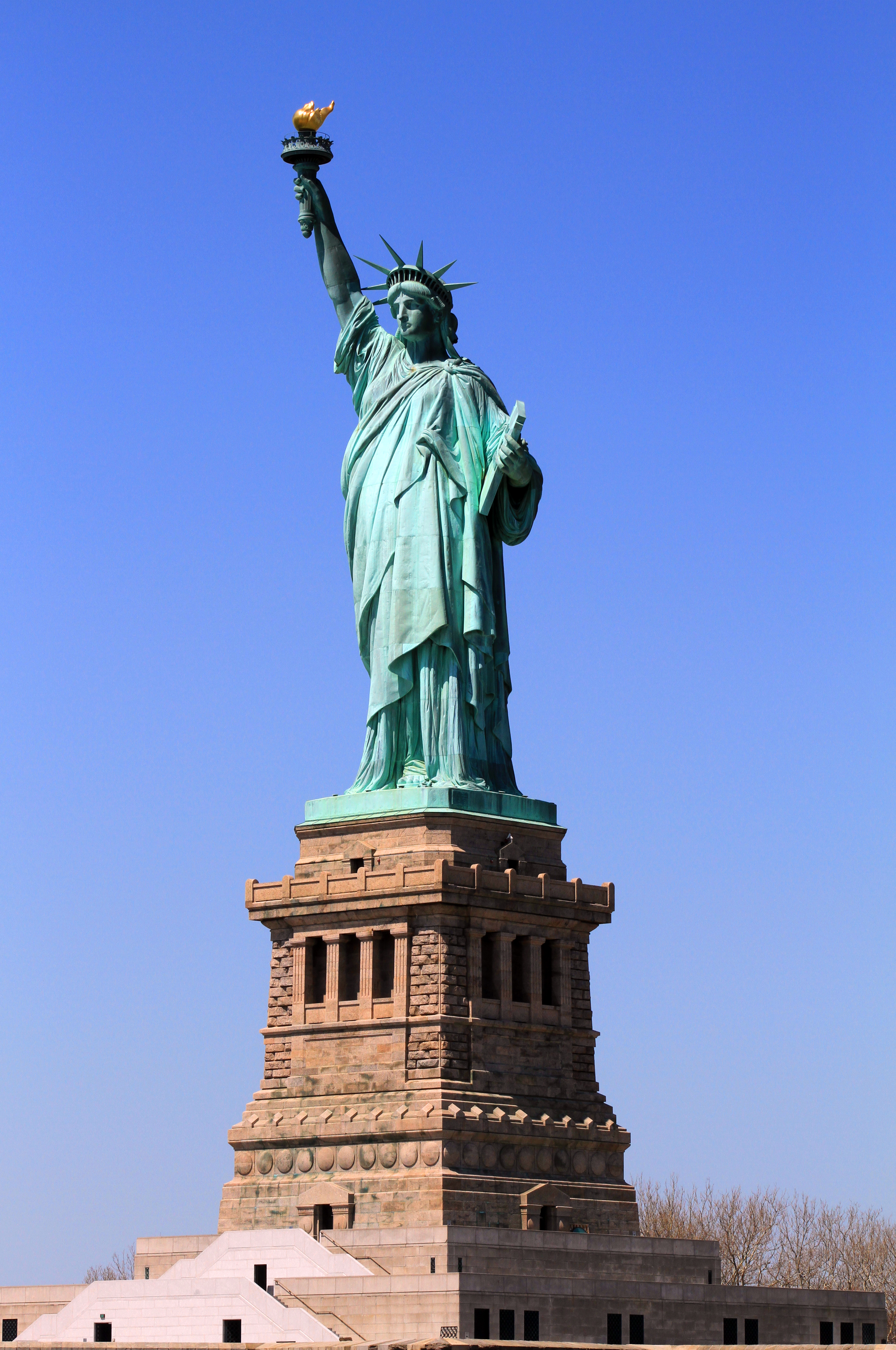 Statue of Liberty